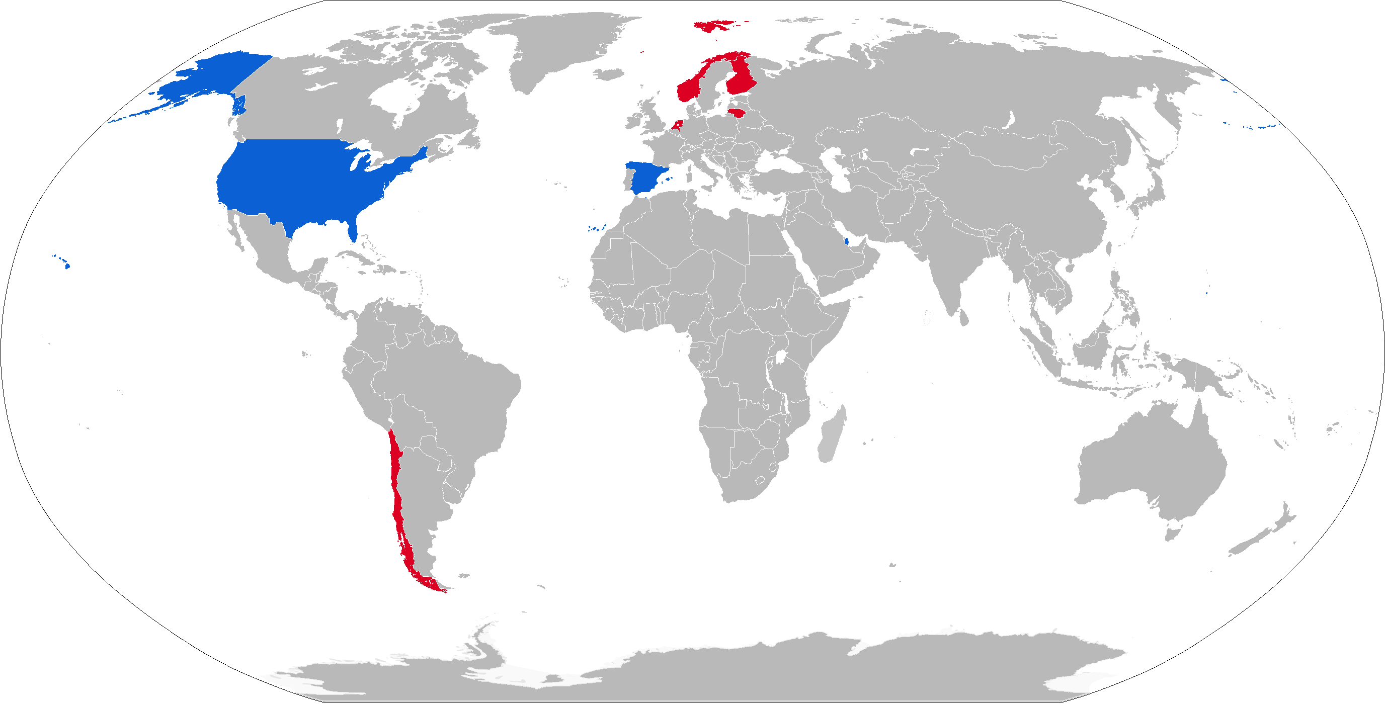 Map with NASAMS operators in dark blue with NASAMS 2 operators in light blue